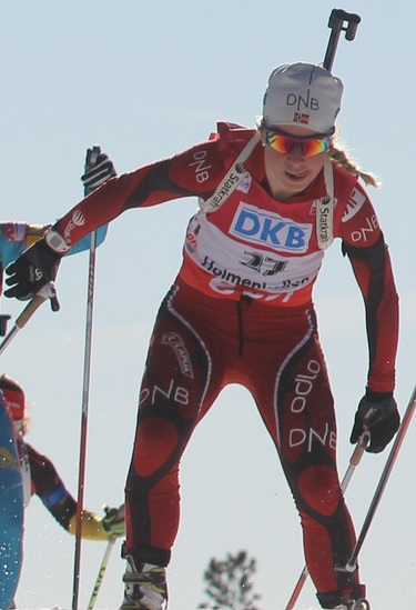 Tiril Eckhoff at the 2013 Biathlon Worldcup in Oslo.